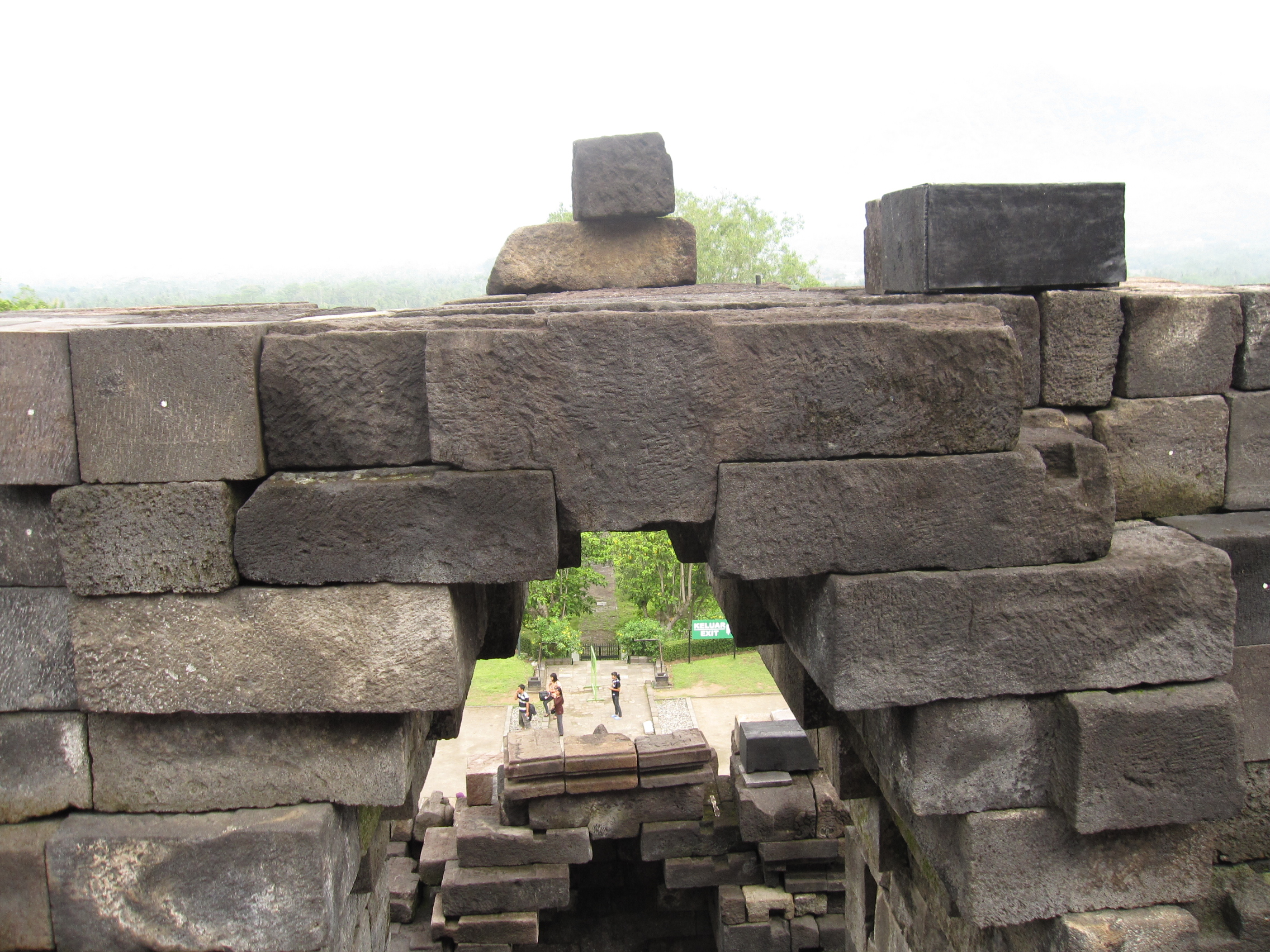 Buddhist stupa Borobudur in central Java, Indonesia.